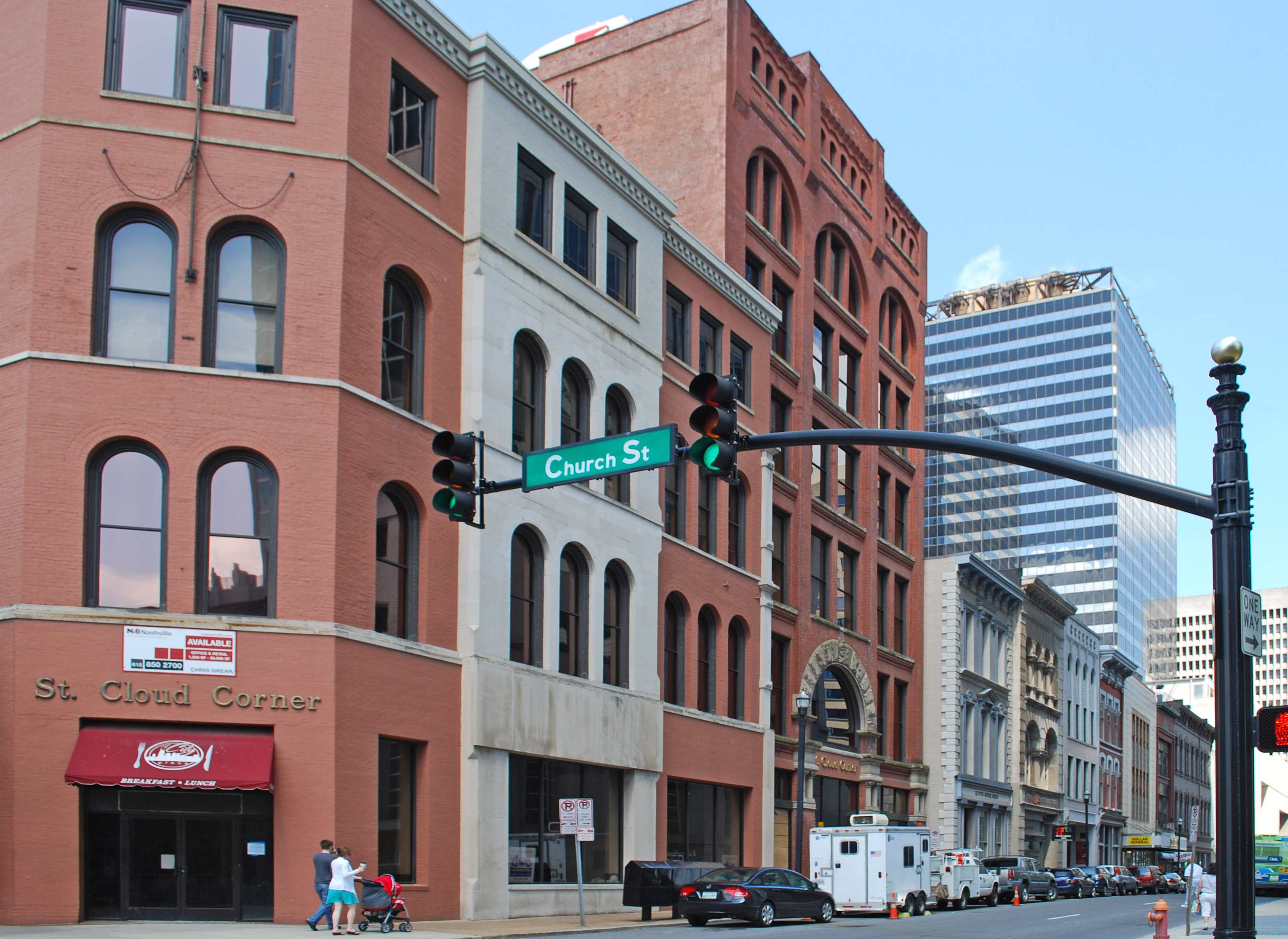 Fifth Avenue Historic DIstrict (5th & Church), Nashville TN